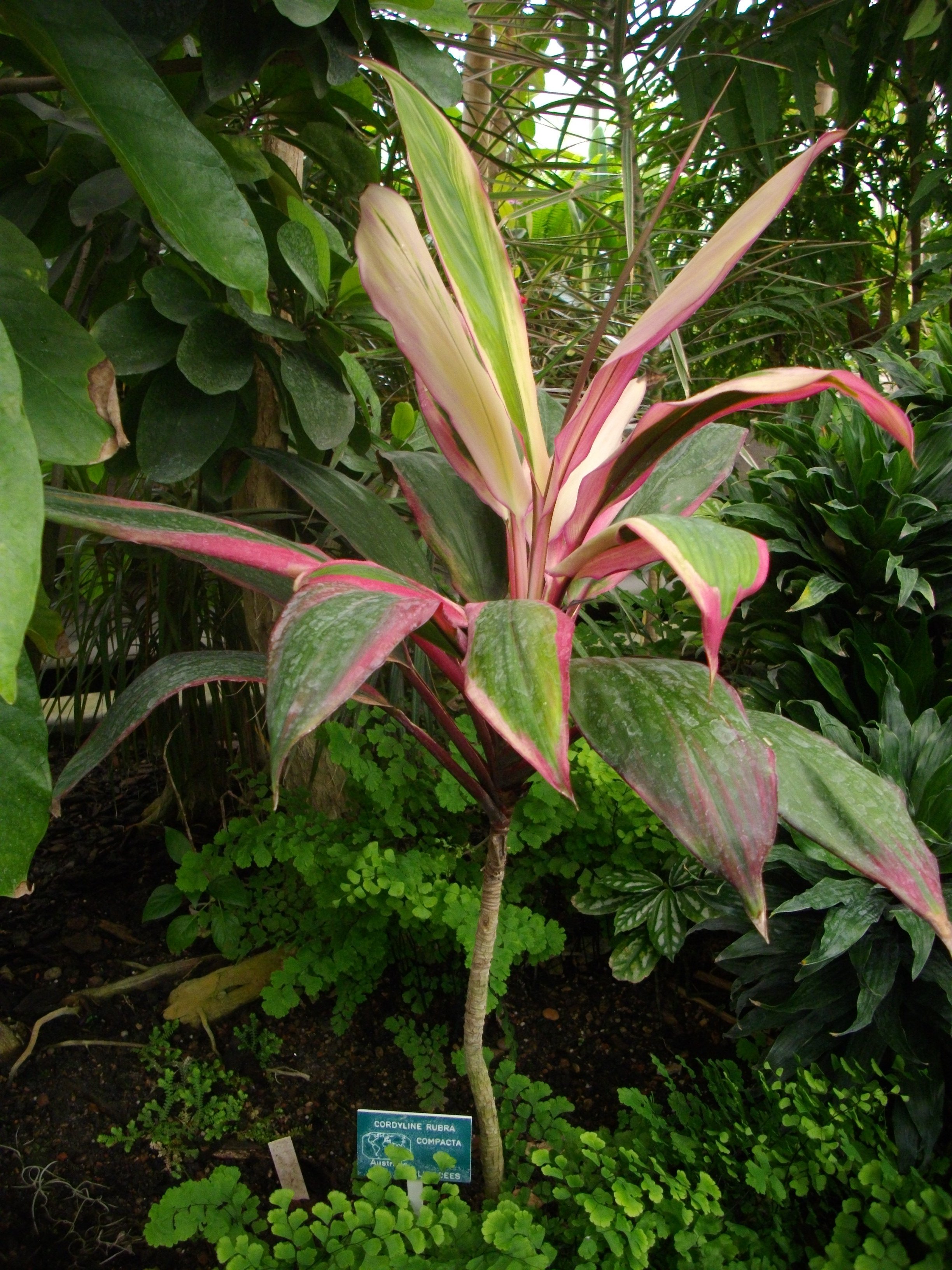 Cordyline rubra compacta", greenhouse of the botanical garden of Metz (France), june 2012